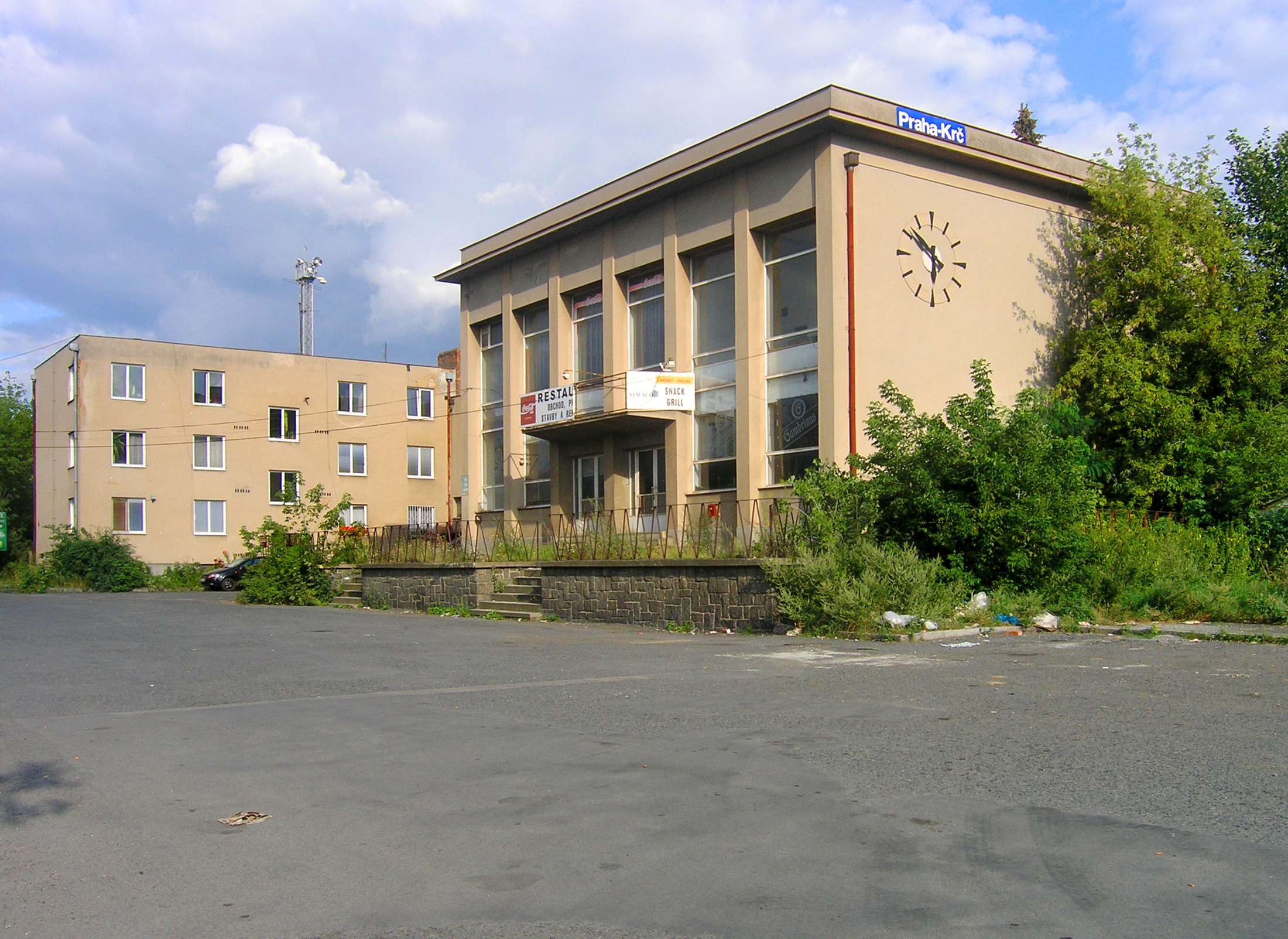 Railway station in Krč, Prague